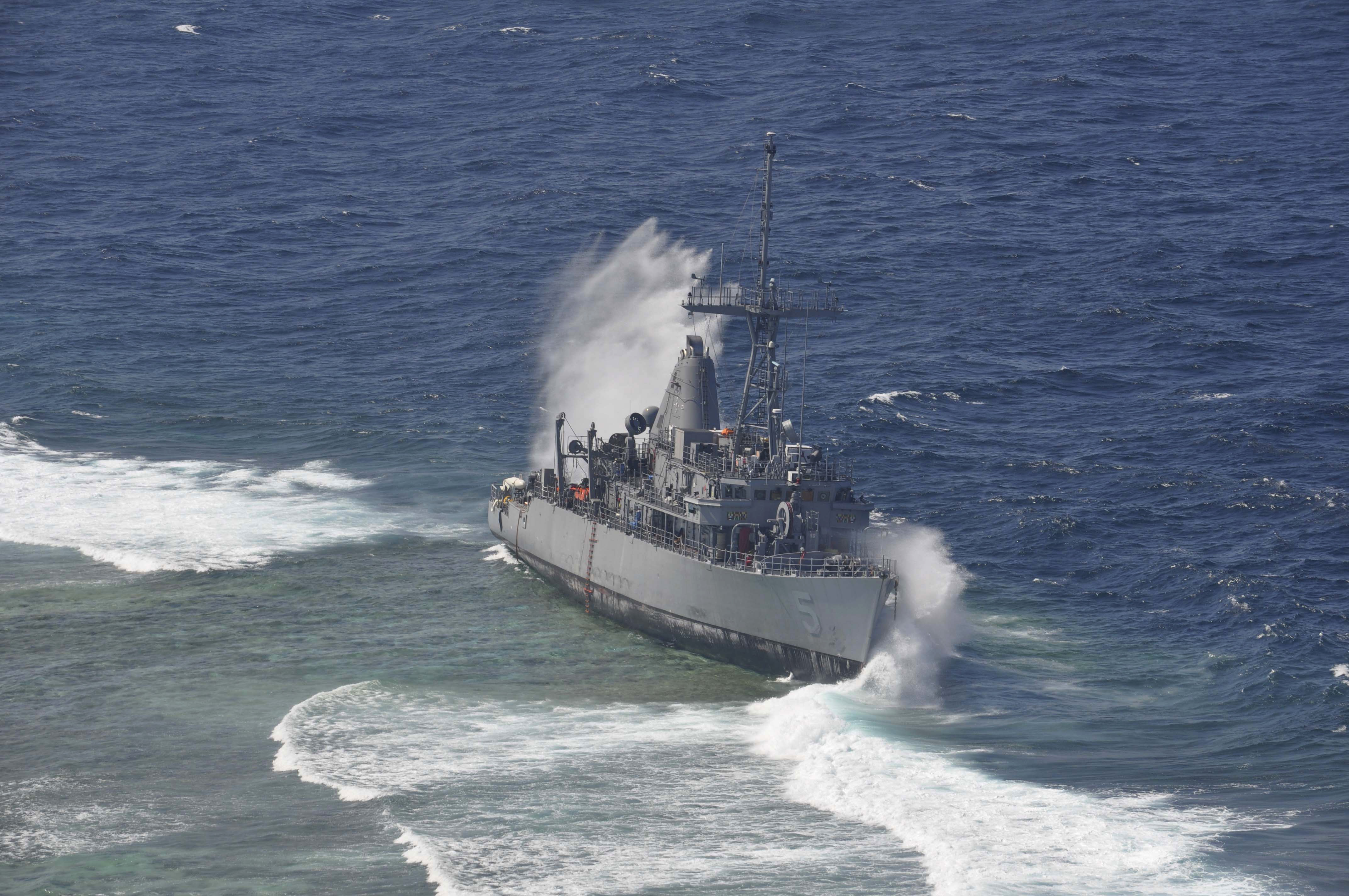 SULU SEA (Jan. 29, 2013) Heavy waves crash against the grounded mine countermeasure ship USS Guardian (MCM 5), which ran aground on the Tubbataha Reef in the Sulu Sea on Jan. 17. The grounding and subsequent heavy waves constantly hitting Guardian have caused severe damage, leading the Navy to determine the 23-year old ship is beyond economical repair and is a complete loss. With the deteriorating integrity of the ship, the weight involved, and where it has grounded on the reef, dismantling the ship in sections is the only supportable salvage option. The U.S. Navy continues to work in close cooperation with the Philippine Coast Guard and Navy to safely dismantle Guardian from the reef while minimizing environmental effects.